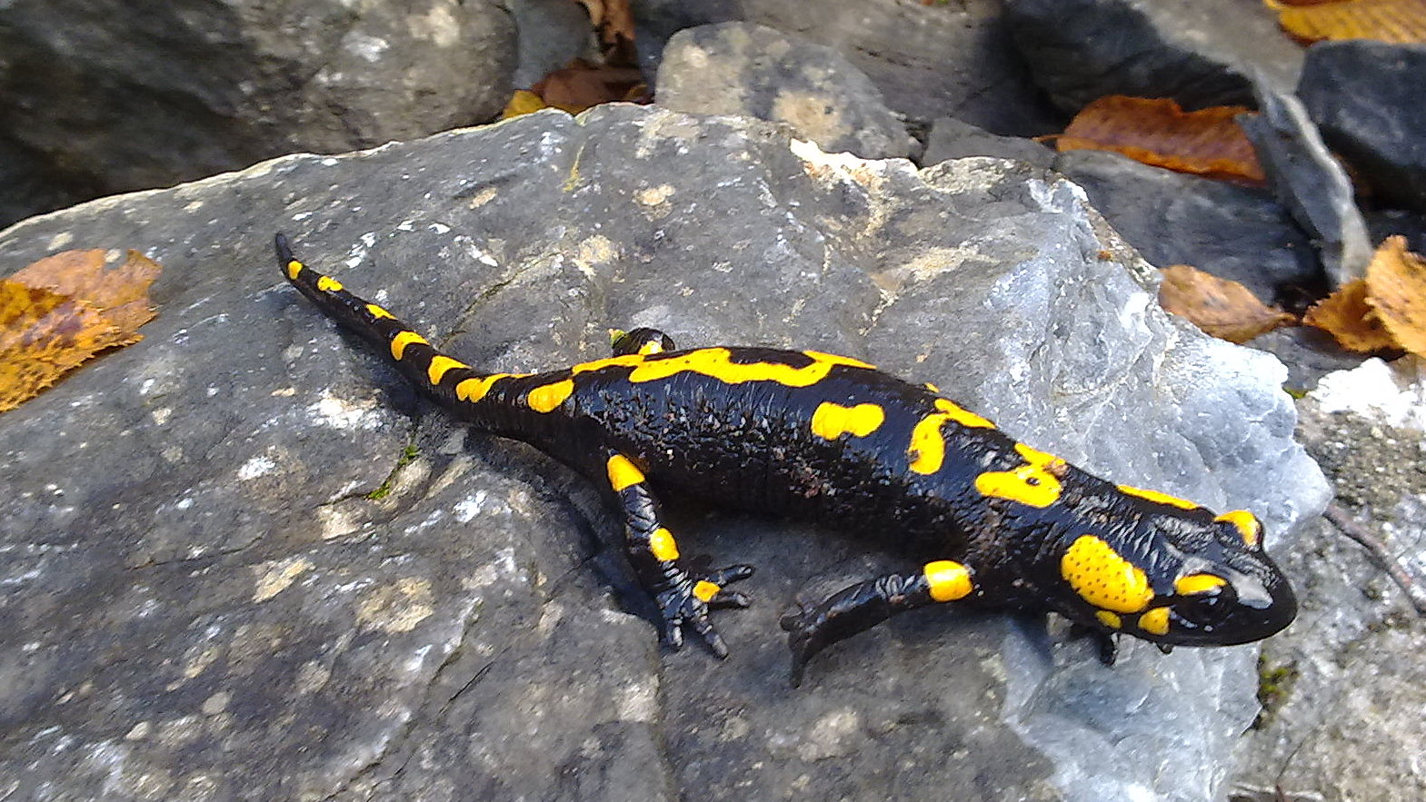 A Salamander in Mount Olymnpus National Park, Greece